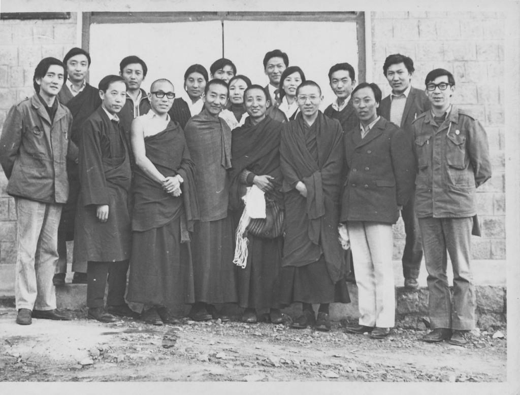 Lodi Gyari, second from left, with the Tibetan Youth Congress (TYC) founders